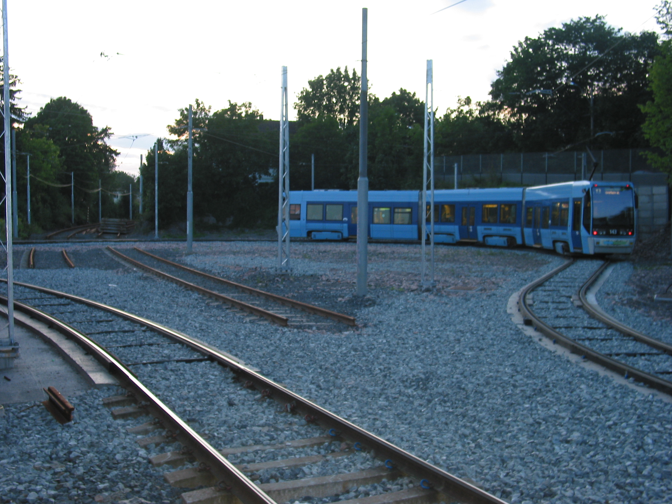 Balloon loop at Lilleaker station, Norway.